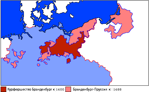 The lands of Brandenburg around 1600.